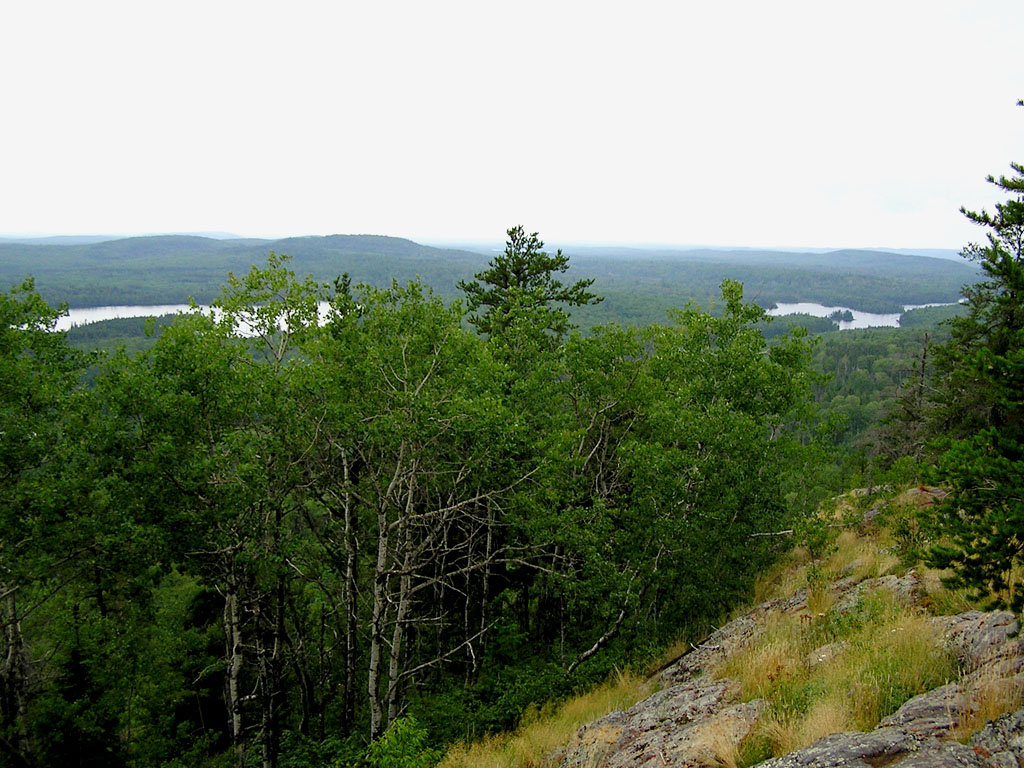 View from near the top of Eagle Mountain, the highest point in Minnesota. Visible are the surrounding Misquah Hills and the North Branch of the Cascade River. Eagle Lake can be seen at the right of the photo, and Shrike Lake at the left. Photo taken by Douglas Kaye in 2006, from the last clear view near the end of the trail to the peak.